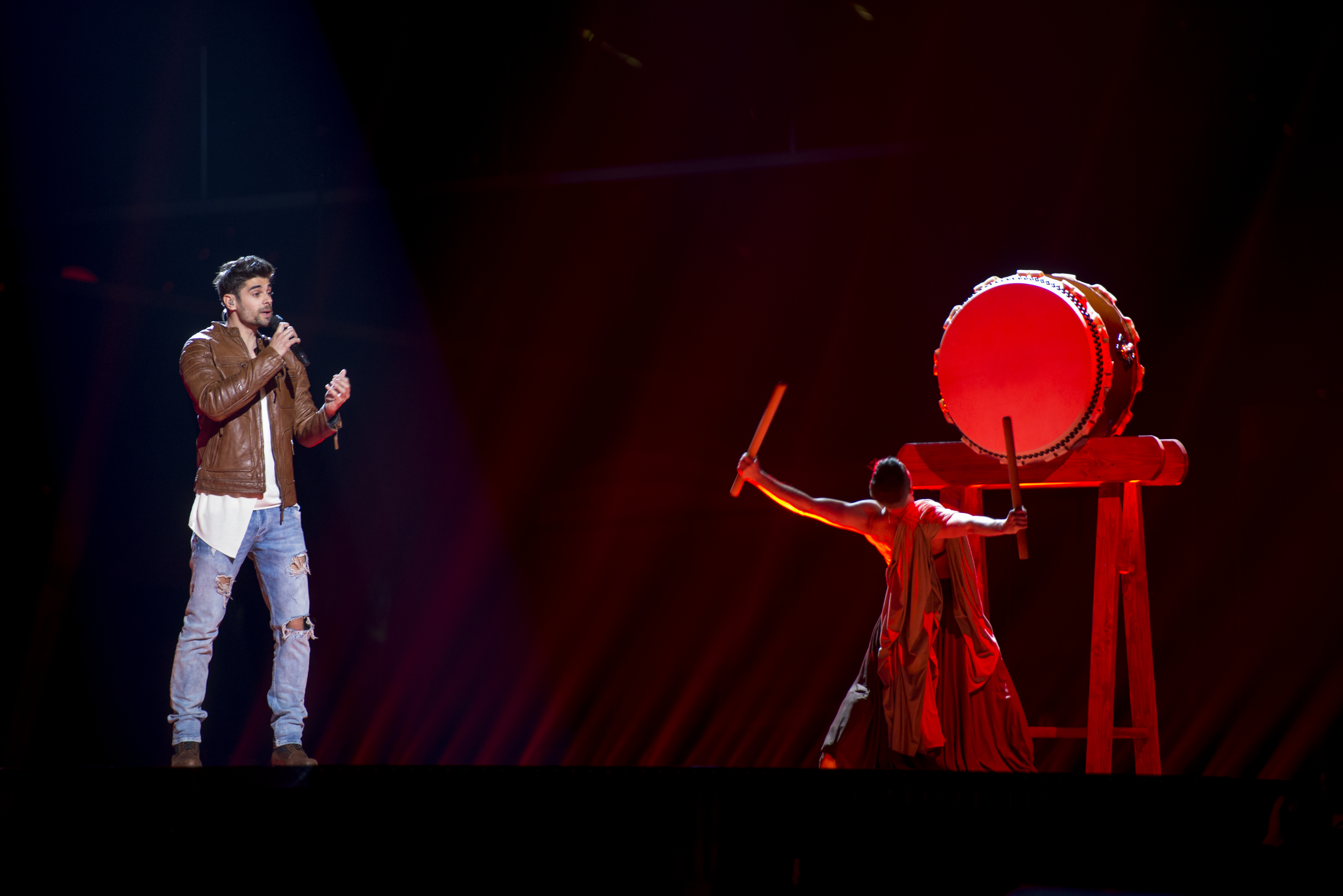 Freddie representing Hungary with the song "Pioneer" during a rehearsal before the first semi final of the Eurovision Song Contest 2016 in Stockholm. (Help translate this text)